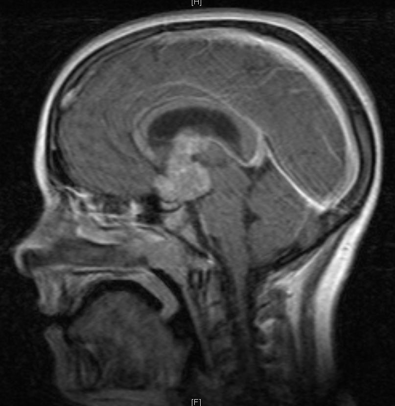 Germinoma, Suprasellar, MRI T1 with contrast, sagittal, poor resolution due to motion artifact